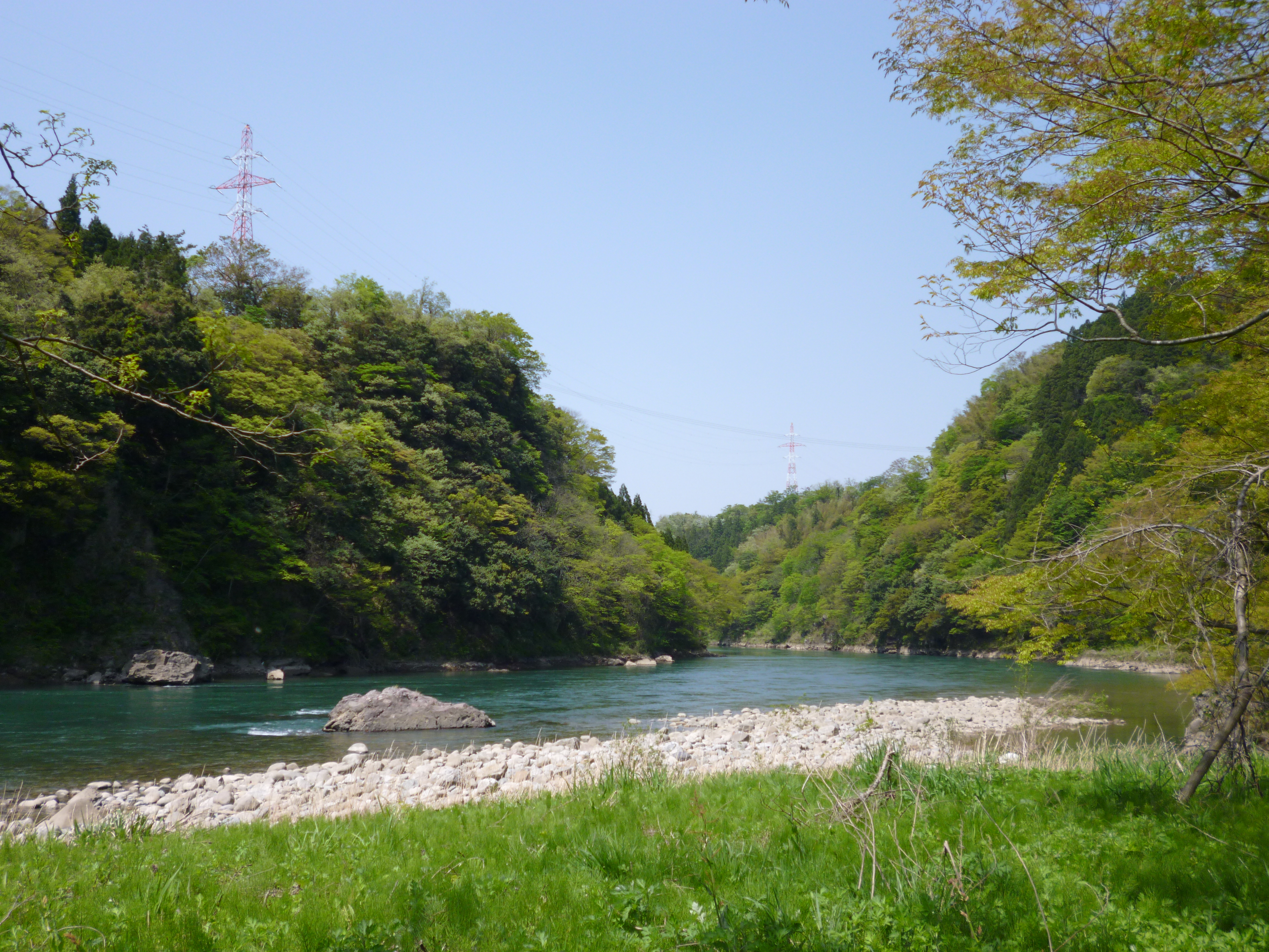 Jinzū Gorge in Toyama, Toyama, Japan.